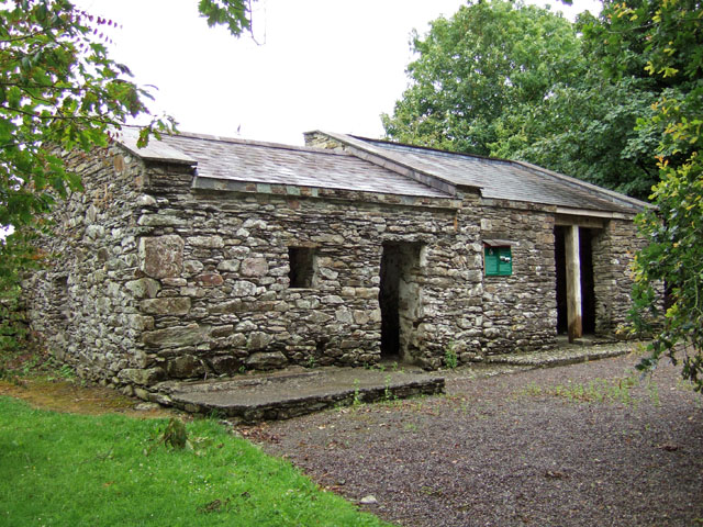 The Birthplace of Michael Collins Michael Collins was the celebrated Irish patriot and military strategist who was the most influential in bringing the British to the negotiating table in the Irish War of Independence 1916 - 1920. His humble birthplace is now a Memorial Centre, which also includes the ruins of his home into which his family had later moved, burned in reprisal by British forces under Major Percival (later General Percival, who presided over the fall of Singapore to the Japanese in 1941).